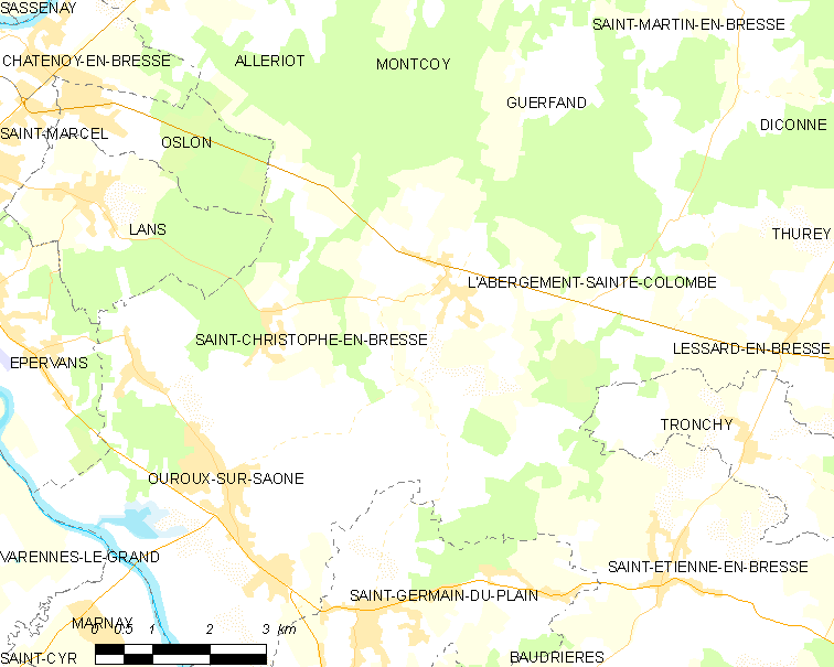 Map of French municipality